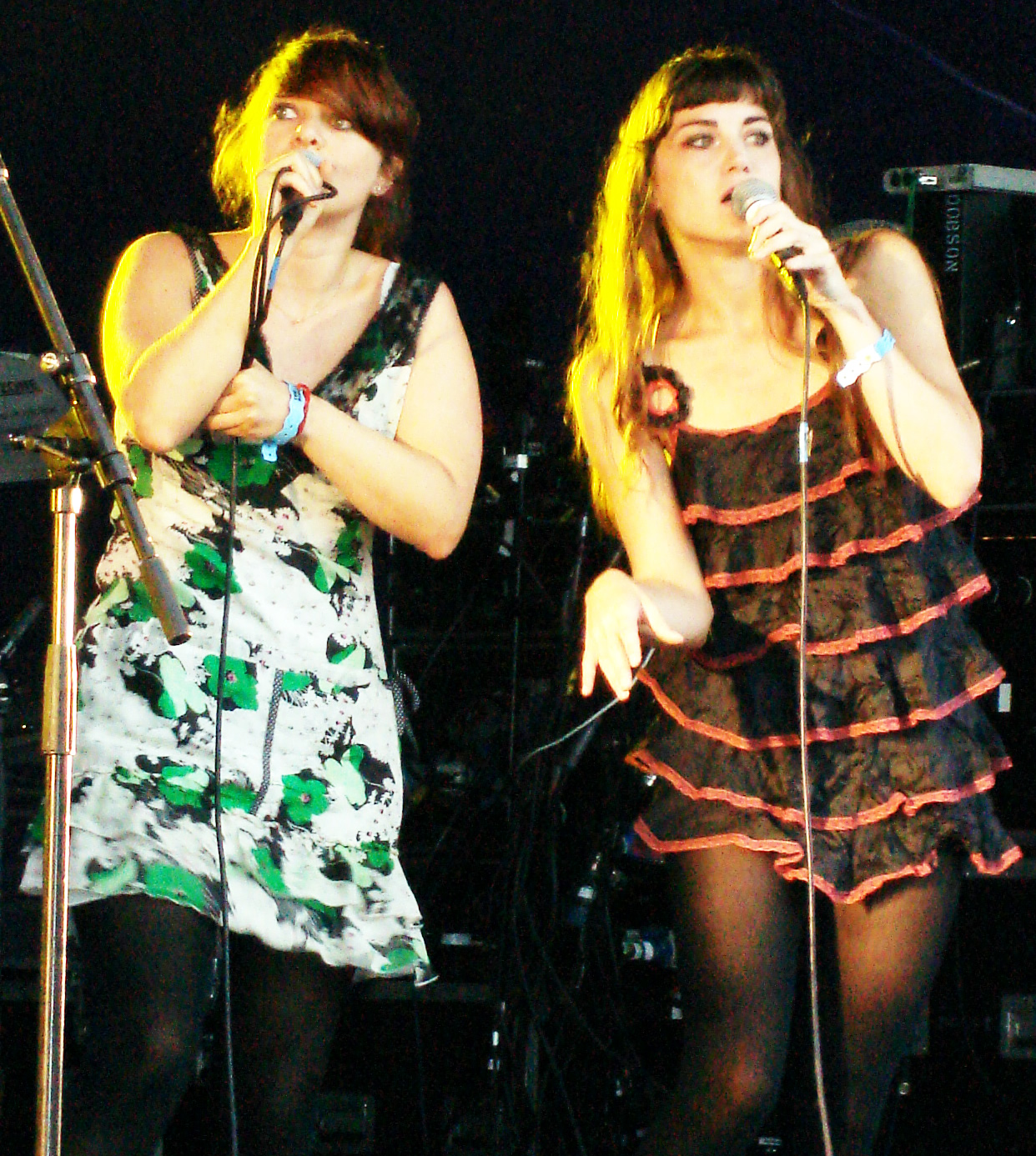 Nouvelle Vague's Mélanie Pain (left) and Phoebe Killdeer (right) performing at the Big Chill festival in 2006.